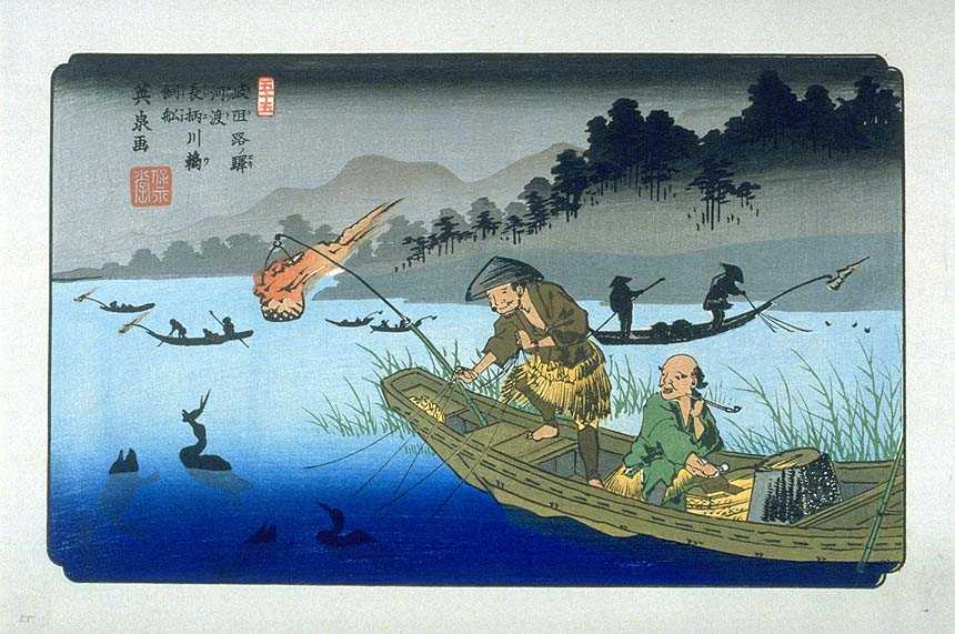 Godo on the Kisokaido, ukiyo-e prints by Keisai Eisen